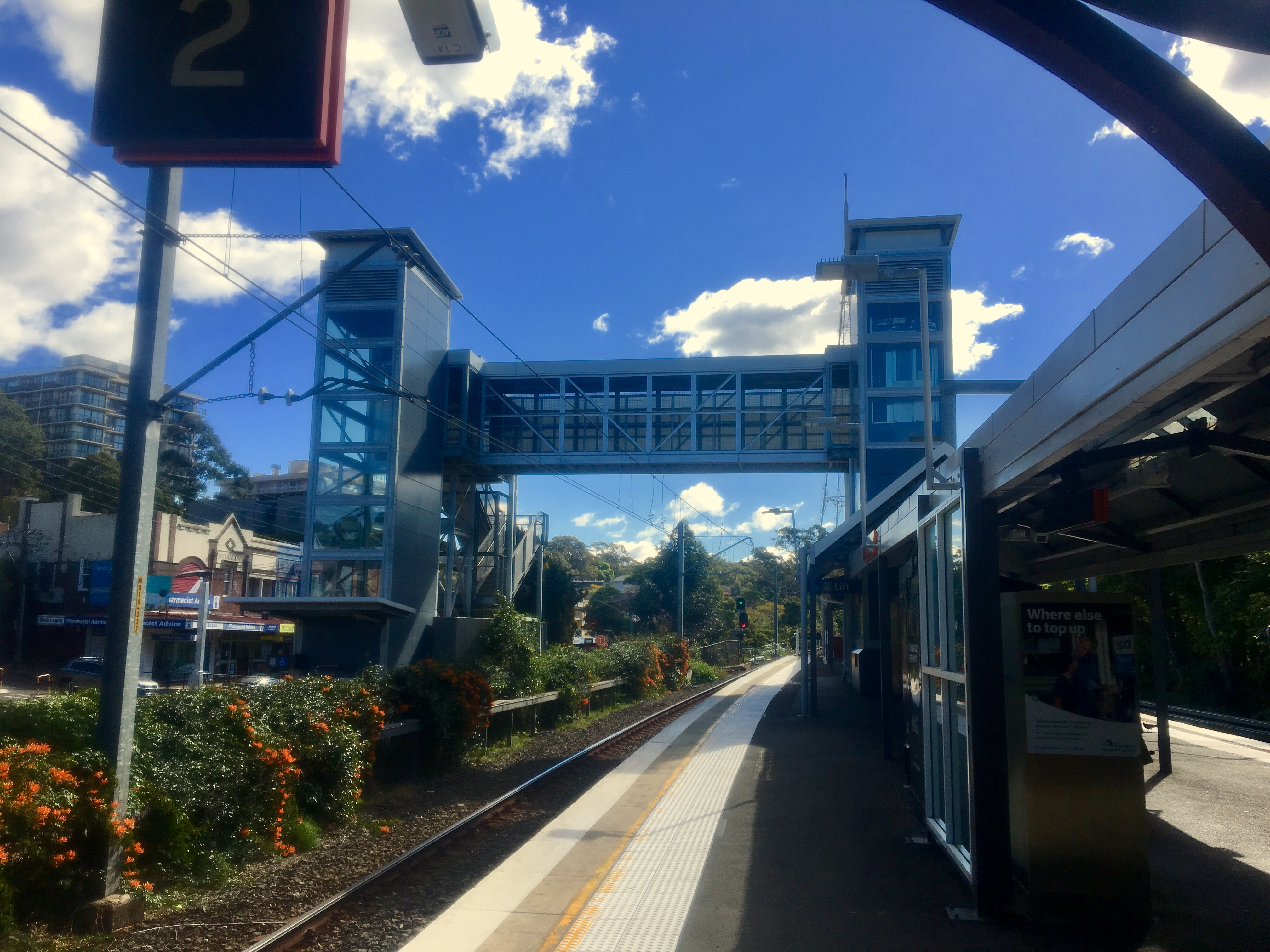 The track and platform at Artarmon railway station.